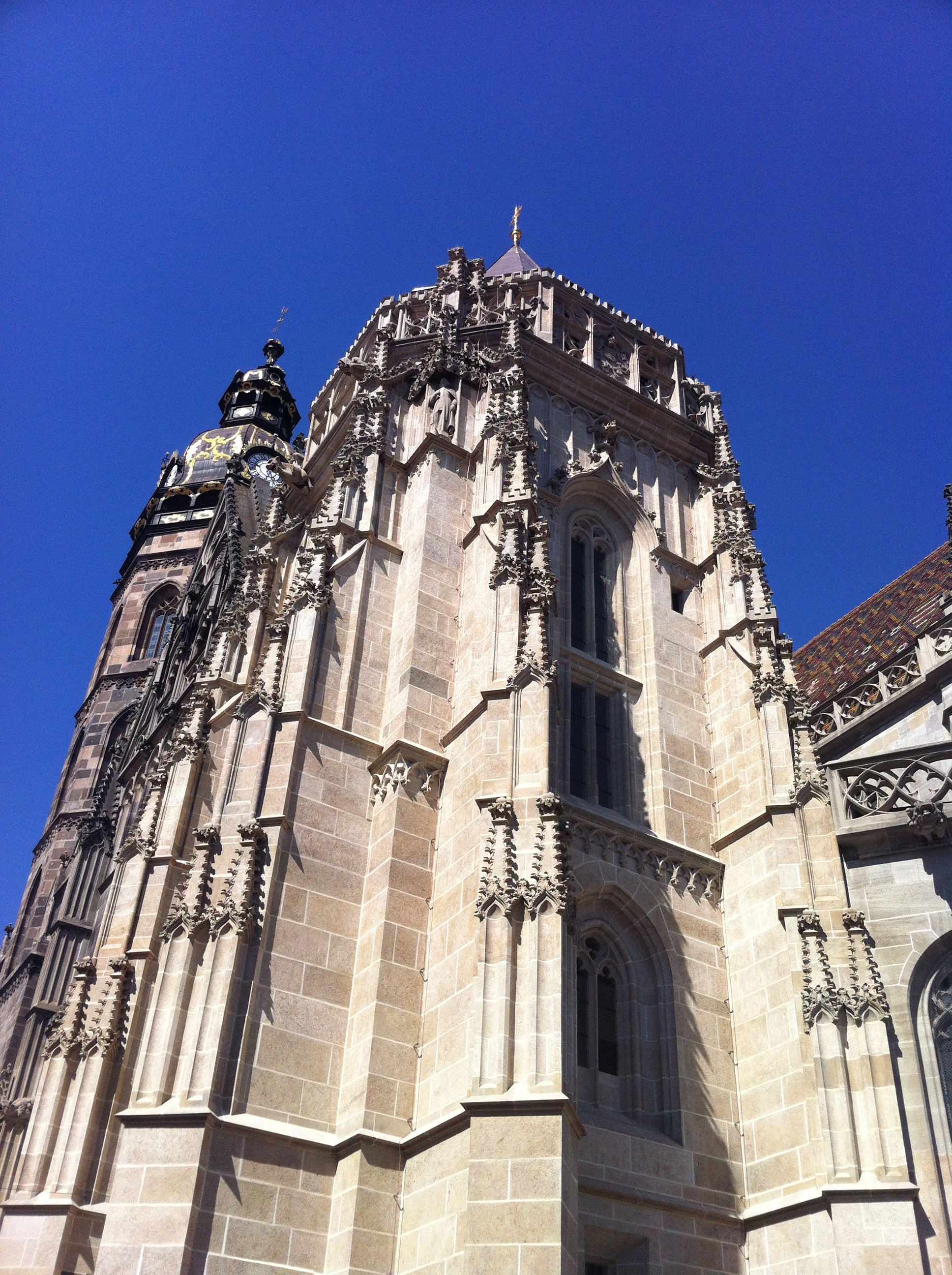 Matthyas Tower of St Elisabeth Cathedral in Košice, Slovakia, 2013